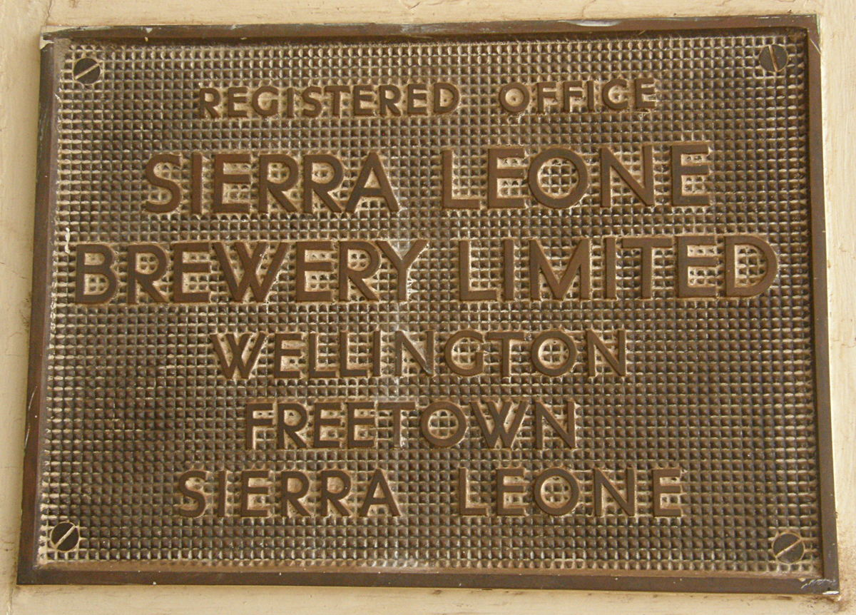 A brass plaque at the main entrance to the Sierra Leone brewery in Freetown for the Sierra Leone Brewery Limited article